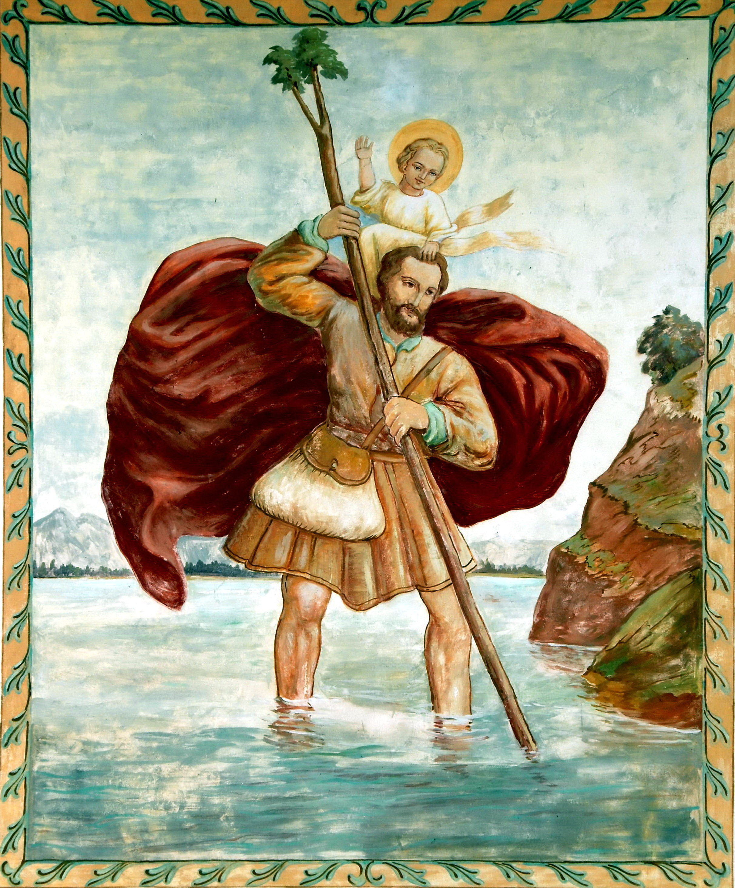 Fresco of Saint Christopher on the western exteriour wall of the parish church the Assumption in Globasnitz, municipality Globasnitz, district Voelkermarkt, Carinthia, Austria, EU